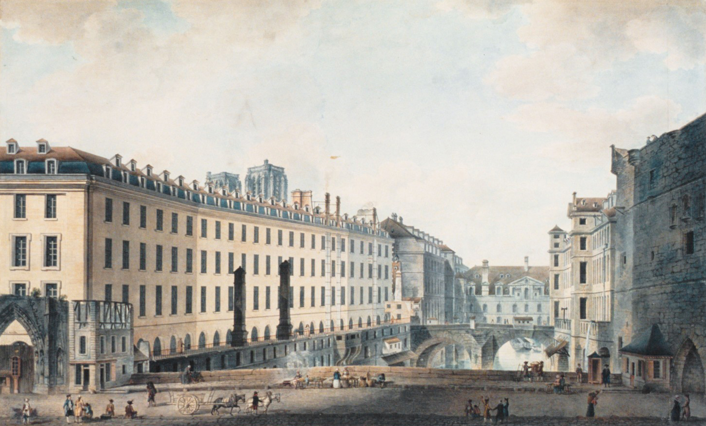 Victor-Jean Nicolle - Le Pont au Double, l'Hôtel-Dieu et le Petit Châtelet